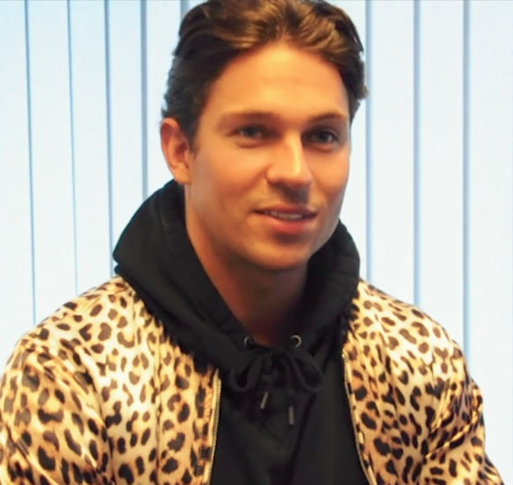 English television personality Joey Essex interviewed by students of Ullswater Community College.